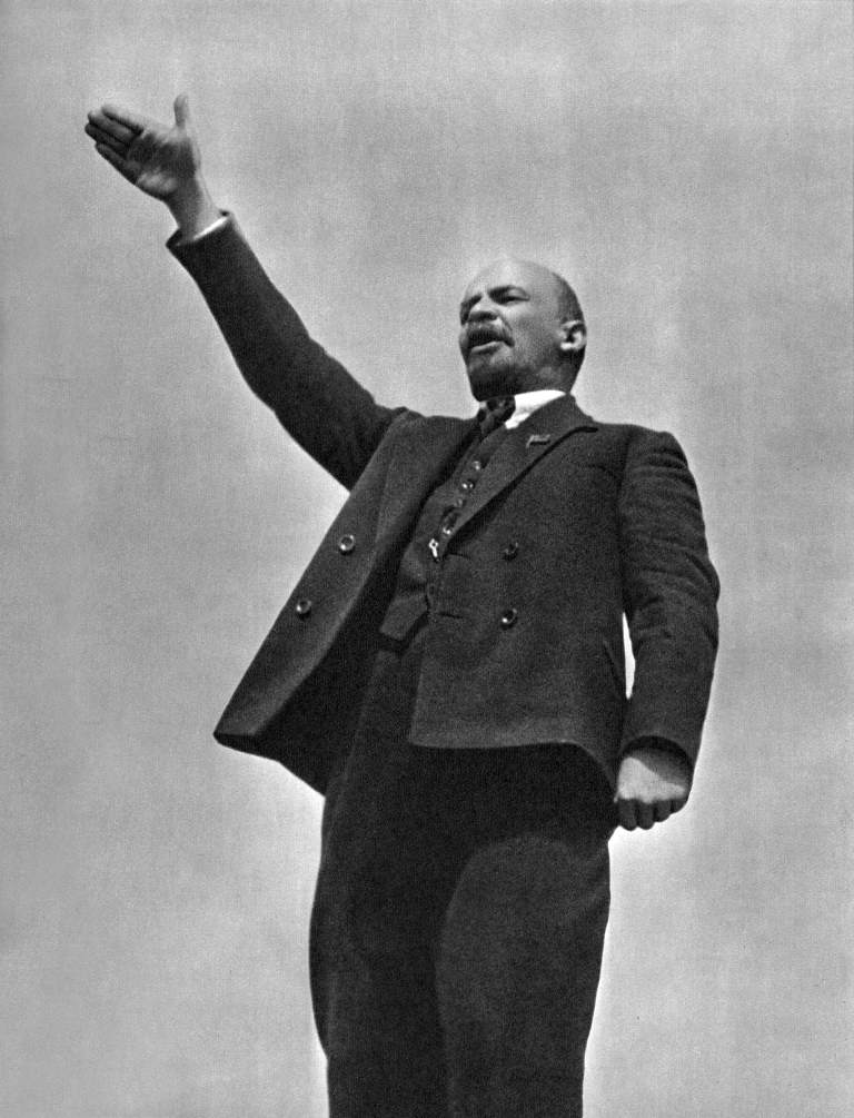 Lenin (1870-1924) making a speech in the Red Square at the unveiling of a temporary monument to Stepaz Razin. Altered version. In this case there is only a cosmetical manipulation by the removal of a lantern.